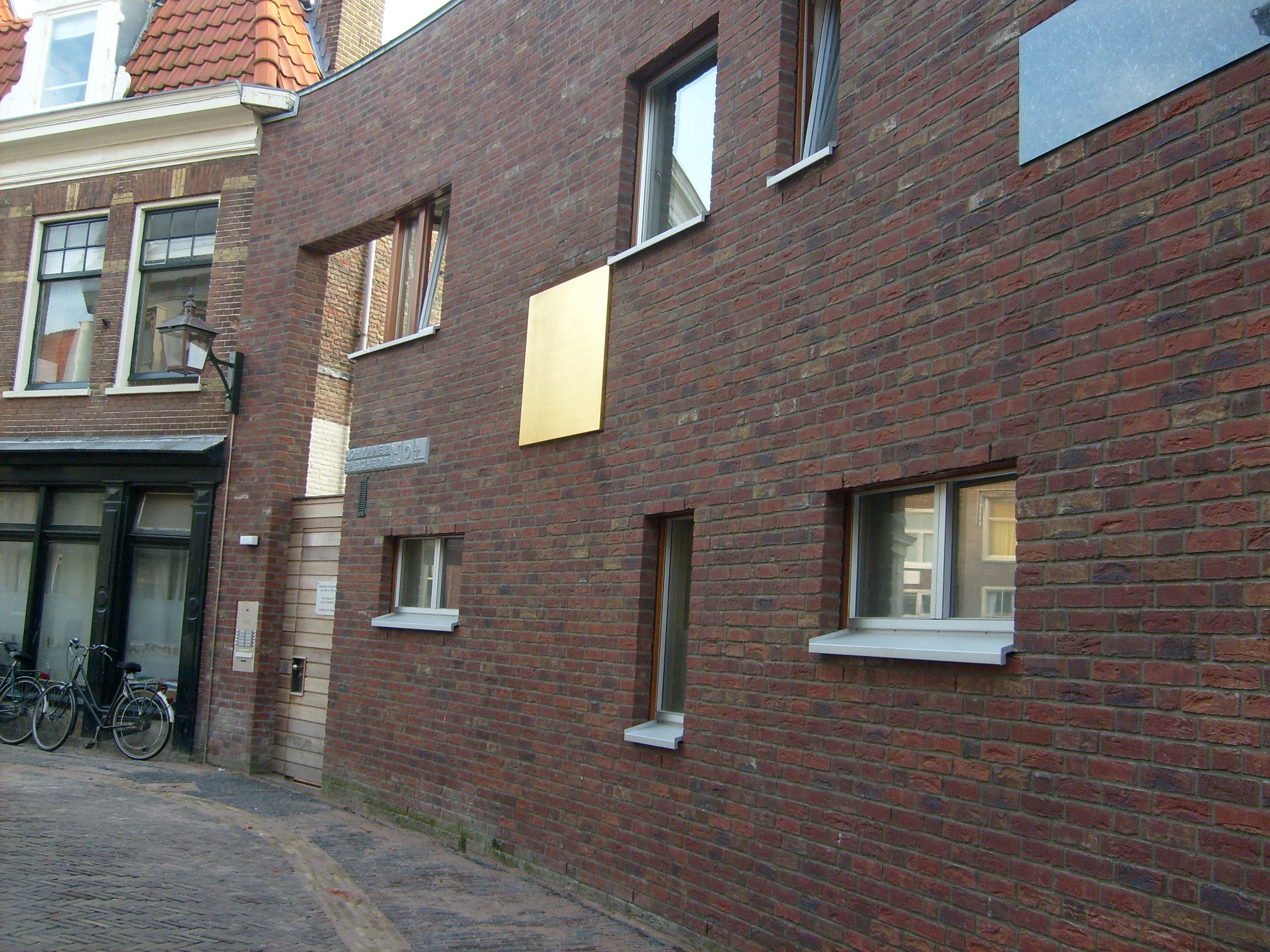 Johan Enschedehofje, Haarlem, The Netherlands